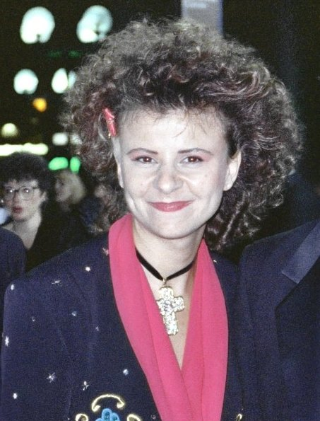 Tracey Ullman, 1988 Emmy Awards.